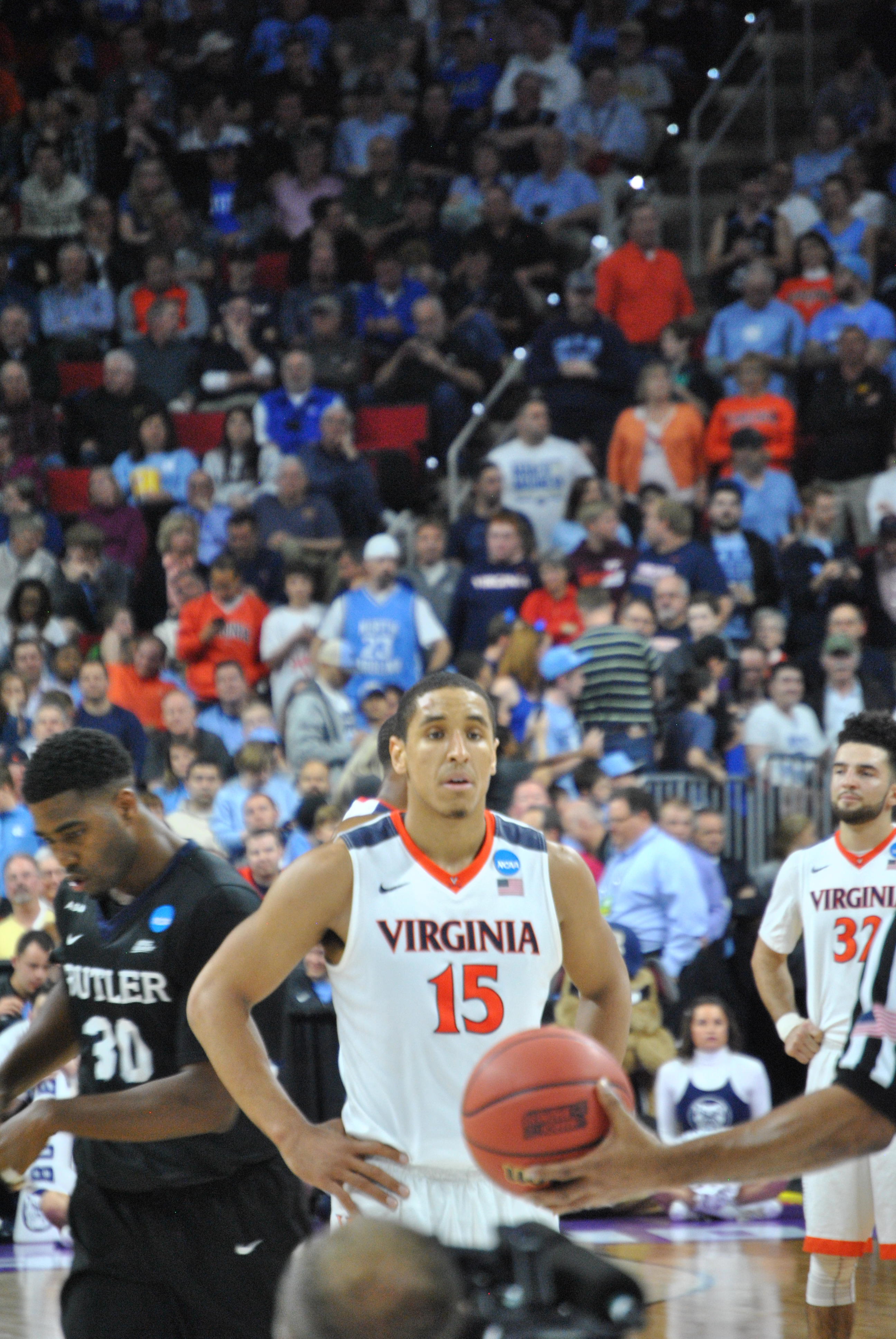 Malcolm Brogdon at the Free Throw line for the Cavaliers